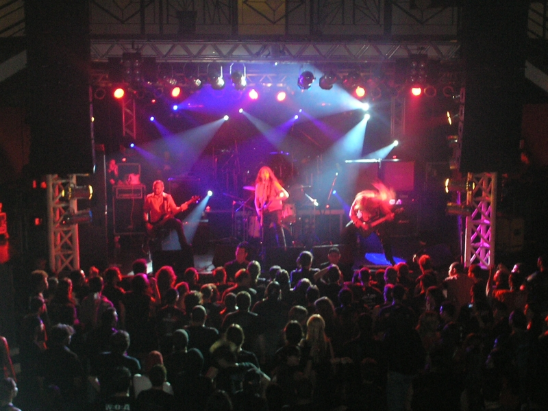 Kamala open act for Sepultura at Campinas Hall in 2009